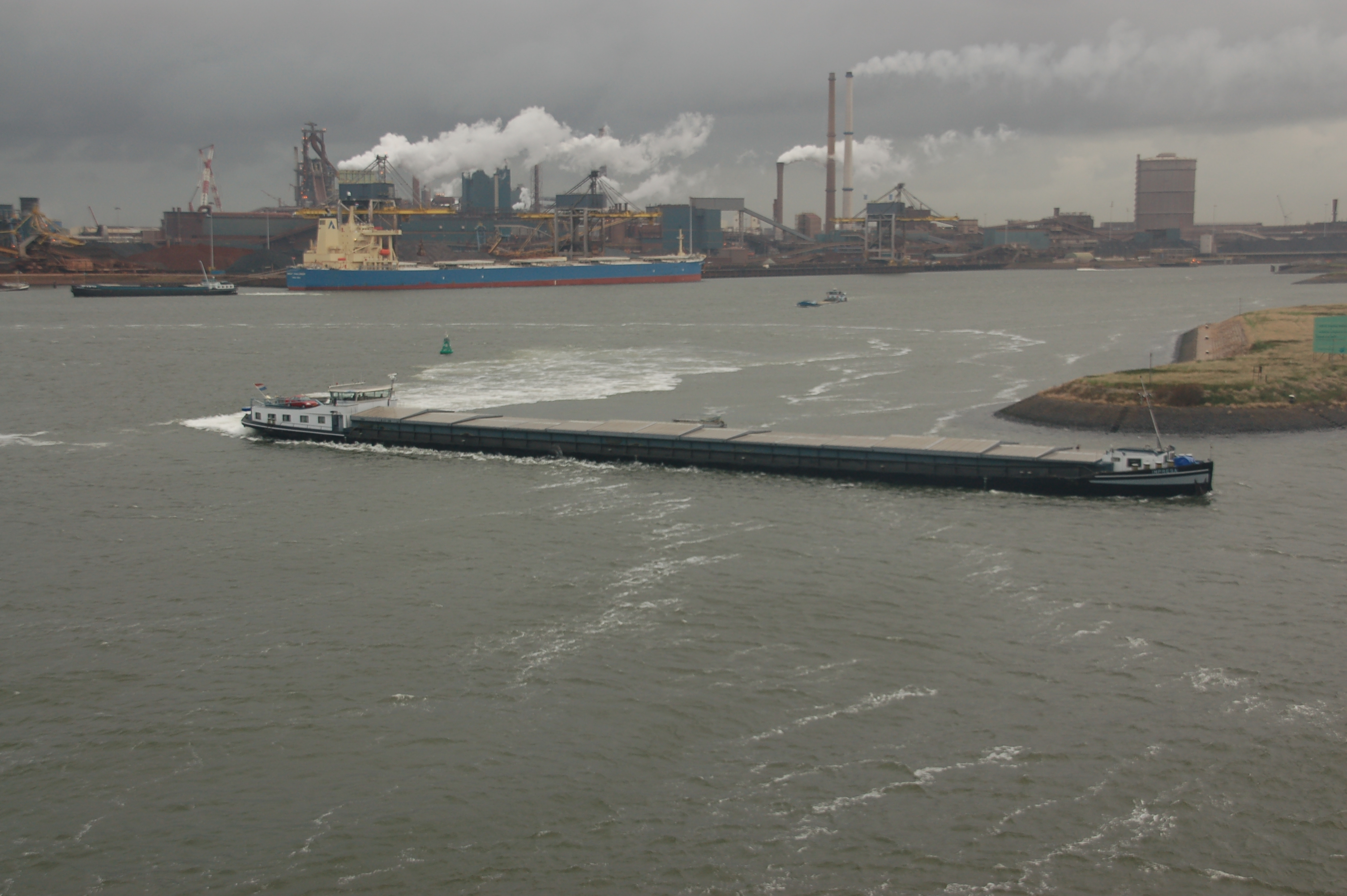 Contributed by: Xtrememachineuk 00:03, 20 January 2007 (UTC)